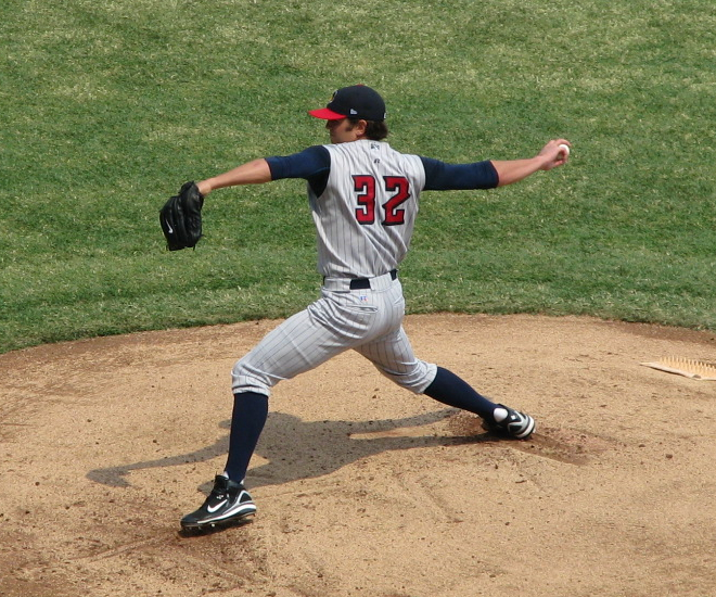 Virgil Vasquez pitching for the Toledo Mud Hens, AAA affiliates of the Detroit Tigers in 2008